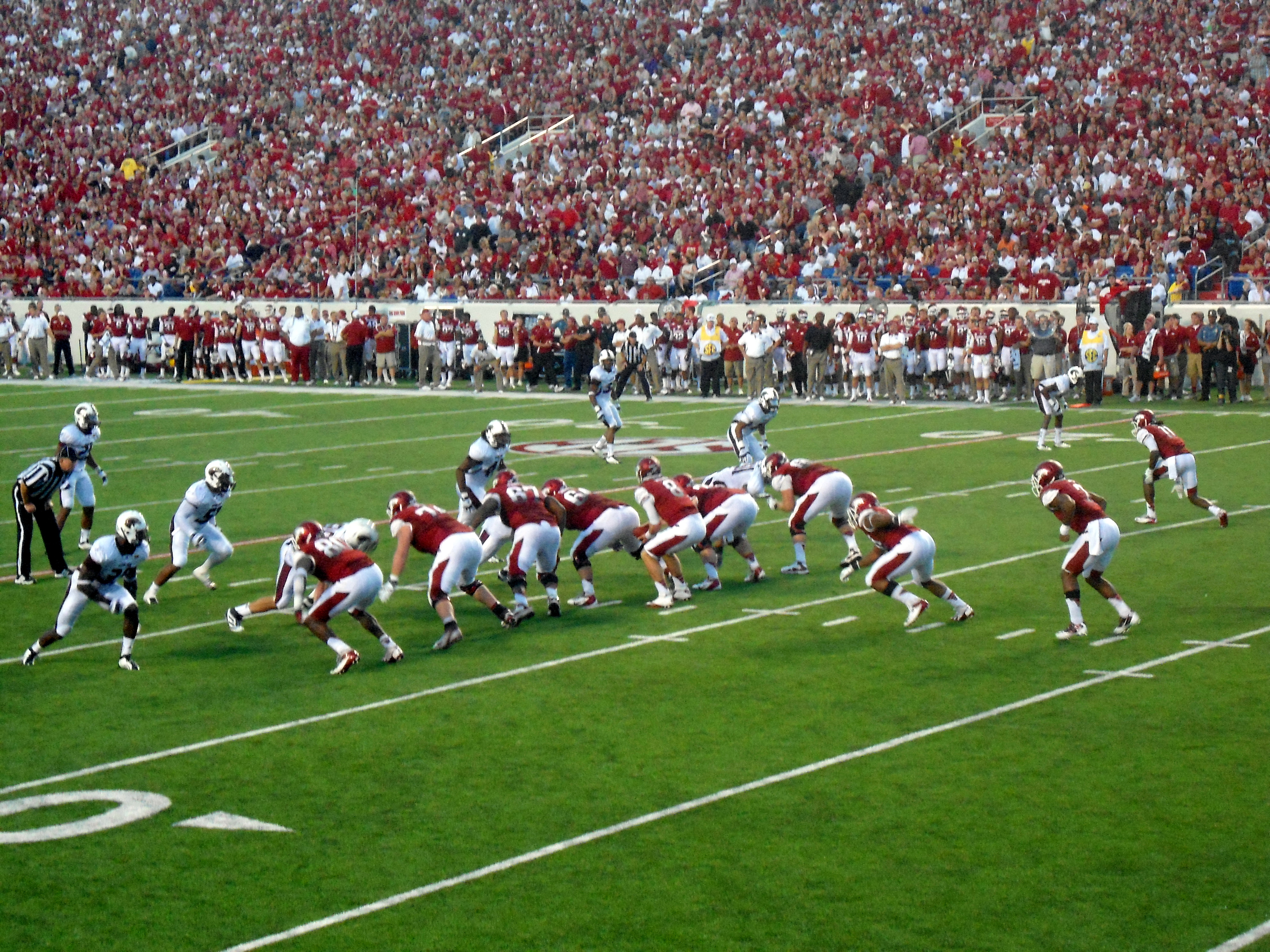 Arkansas Razorbacks vs ULM Warhawks, War Memorial Stadium, Little Rock, Arkansas.